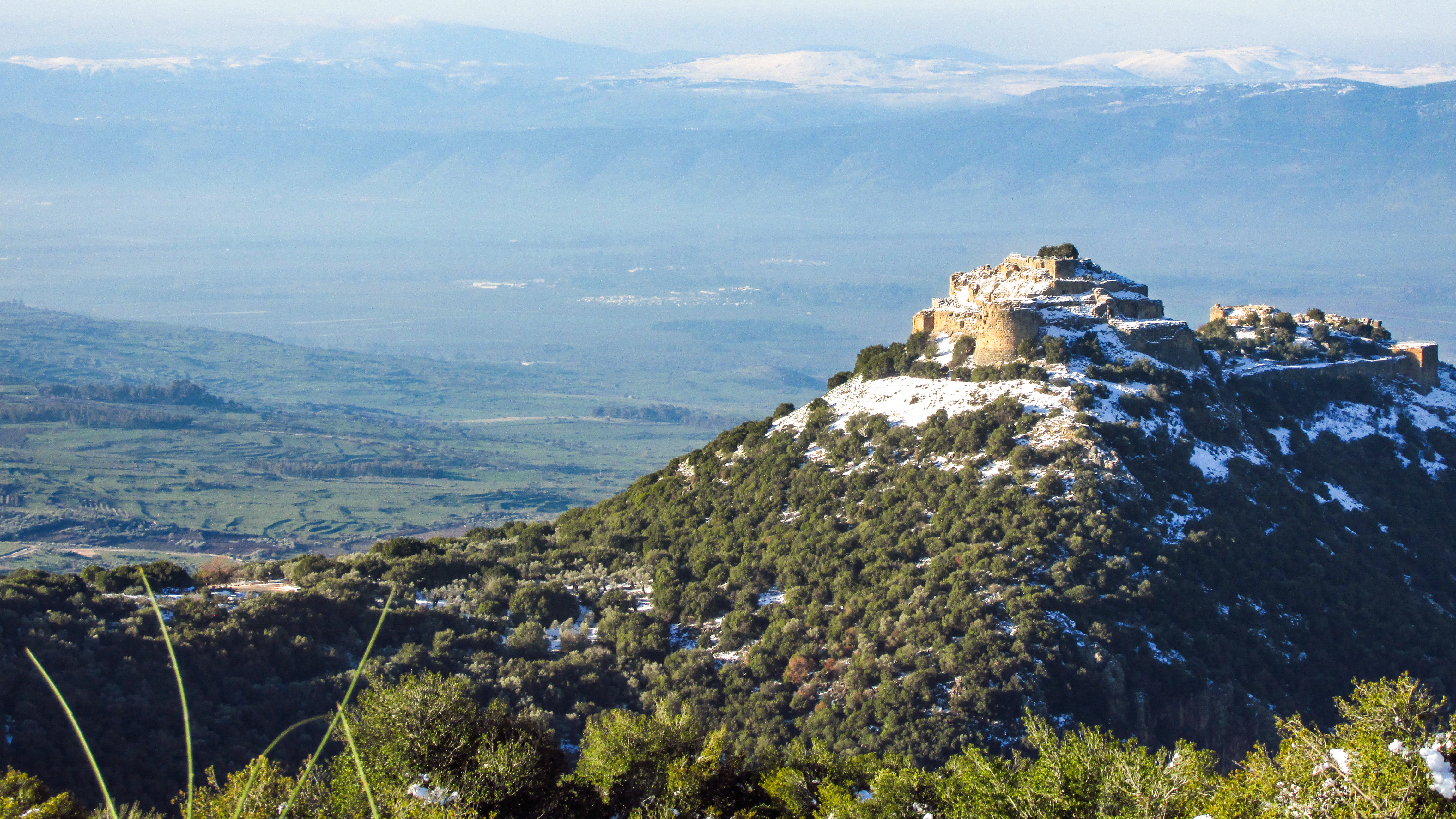 The Nimrod Fortress (Qal'at Namrud) is a medieval Muslim castle situated on the southern slopes of Mount Hermon, on a ridge rising about 800 m (2600 feet) above sea level.